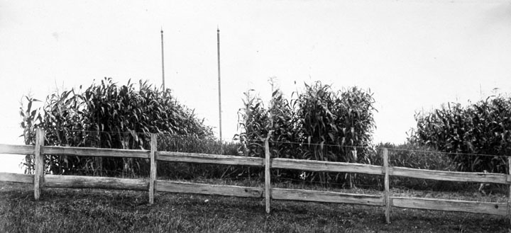 Electroculture experimental plot of maize, Yeerongpilly. (Wooden fence)